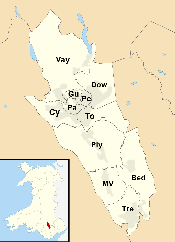 Locations of electoral wards in Merthyr Tydfil County Borough Bed = Bedlinog Cy = Cyfarthfa Dow = Dowlais Gu = Gurnos MV = Merthyr Vale Pa = Park Pe = Penydarren To = Town Tre = Treharris Vay = Vaynor